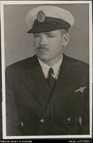 Portrait of Charles Raymond (Bob) Gurney c. 1930 (National Library of Australia)